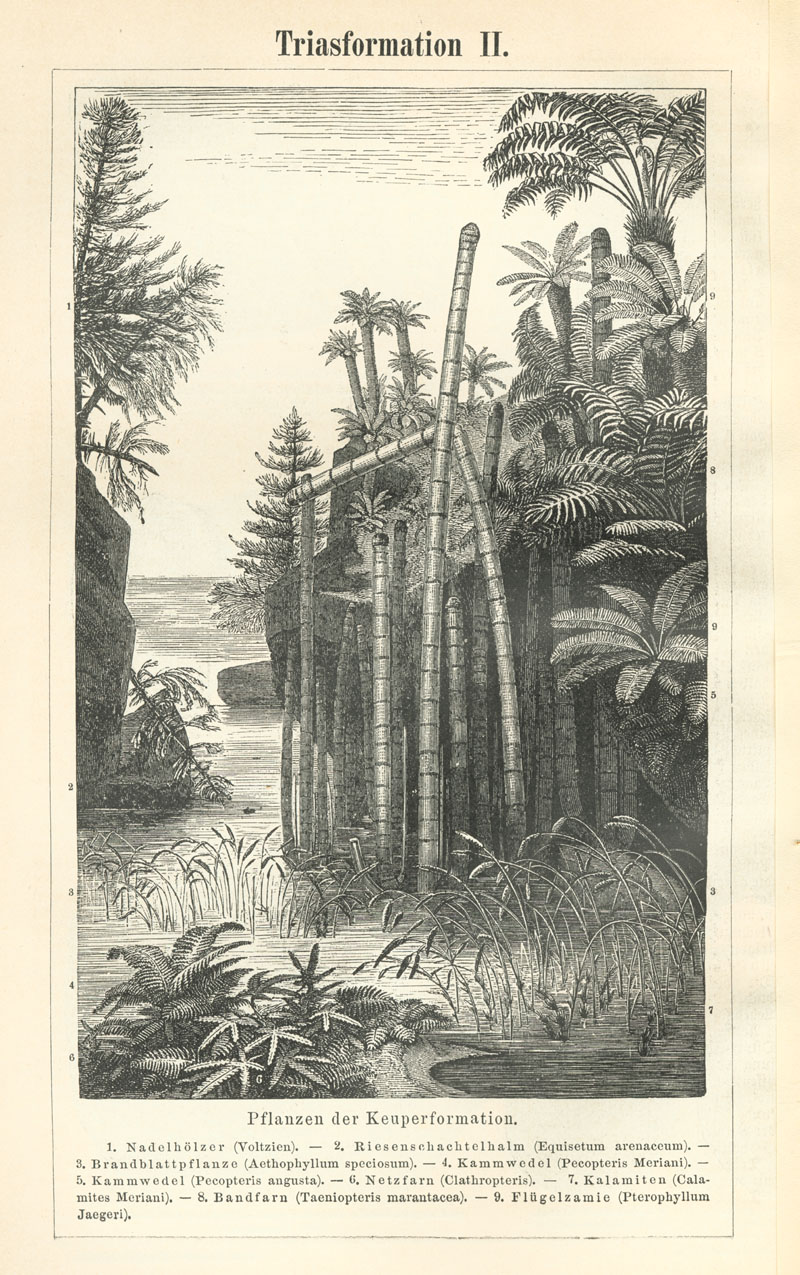 Life restaurations of some Triassic plants